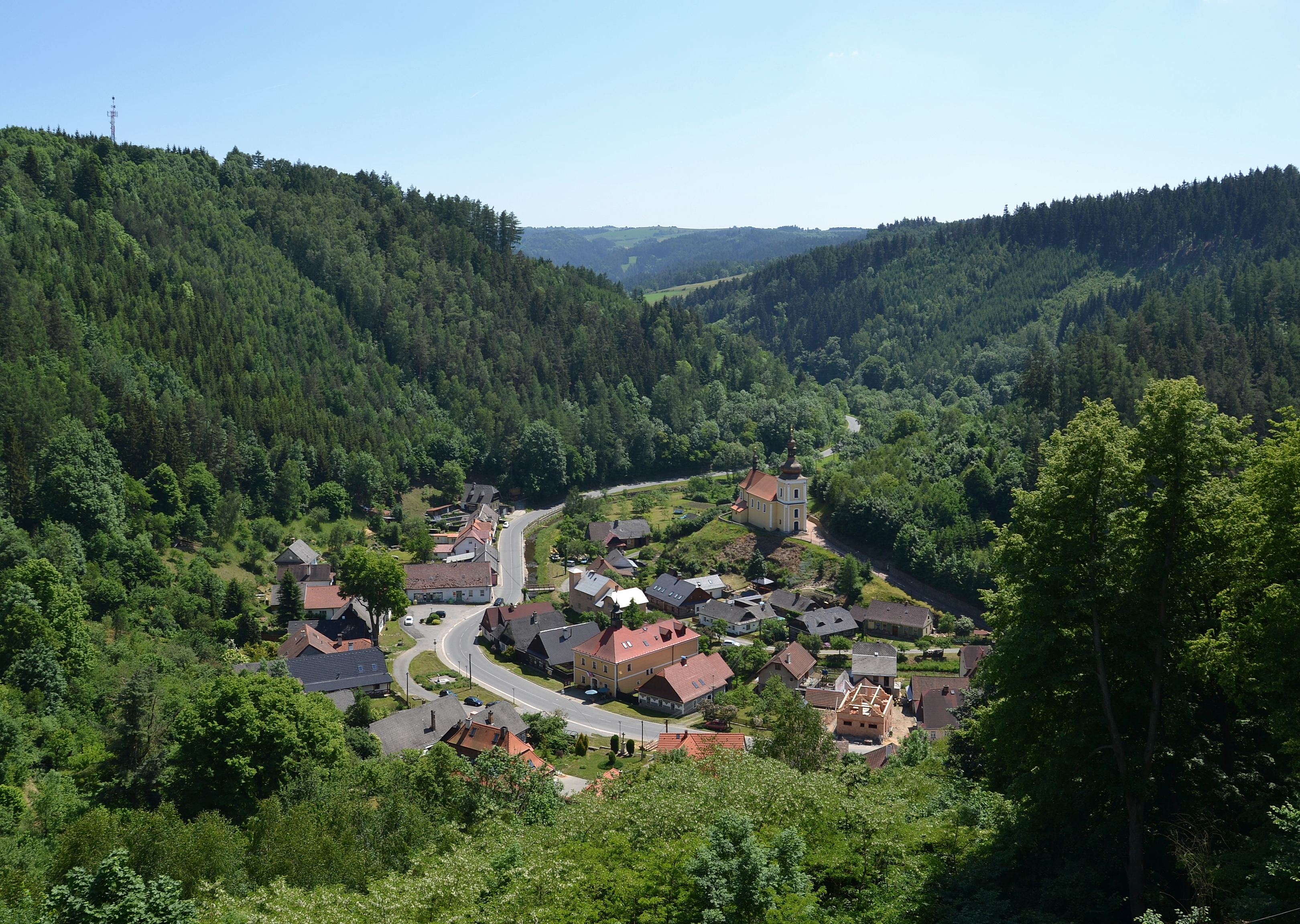 Svojanov (Swojanow) - Moravia. View from the castle Svojanov (Fürstenstein)